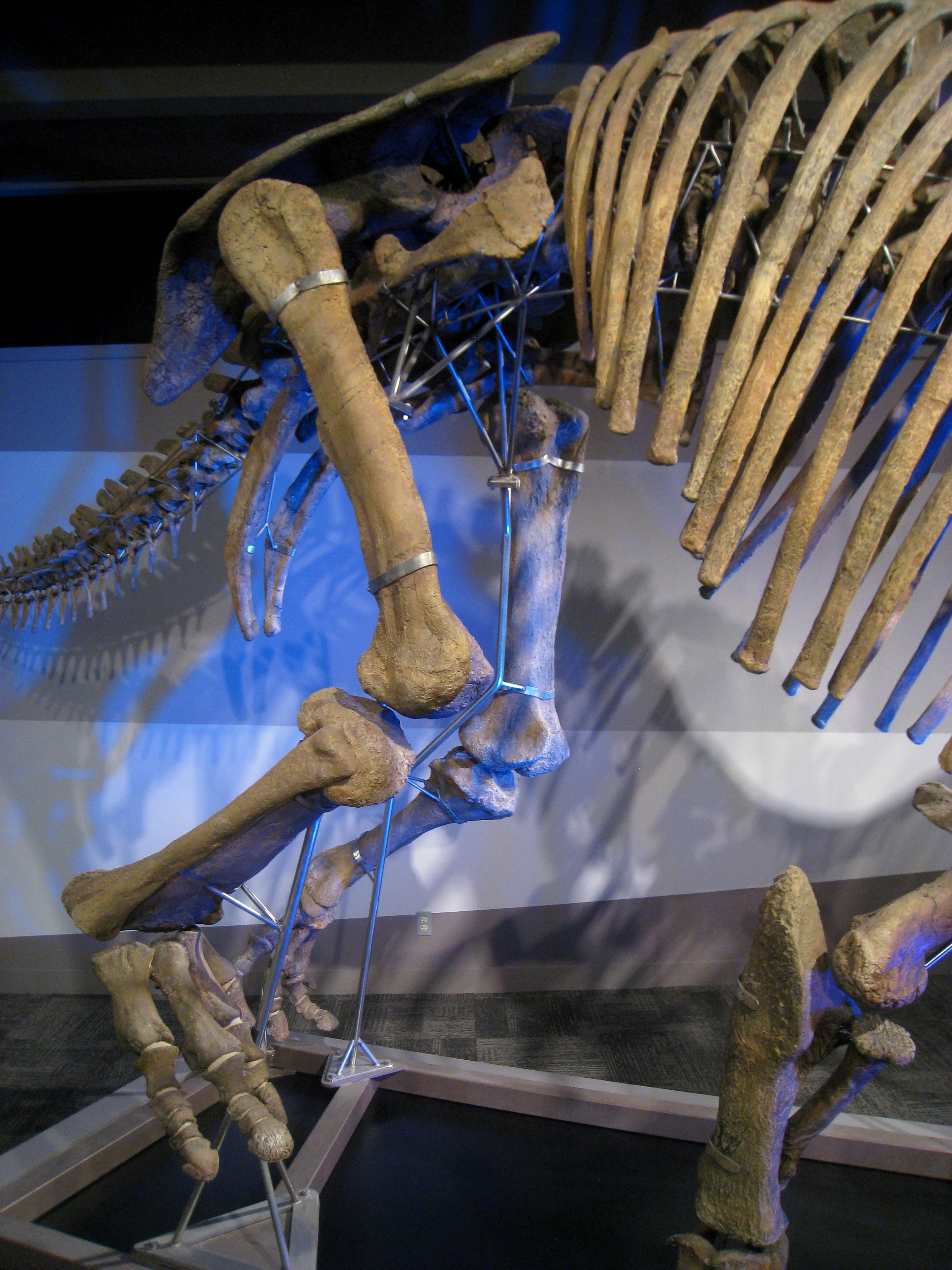 Fossil Tricerotops horridus in Museum of Science, Boston, Massachusetts, USA. Note that there was no prohibition against photography in the museum.